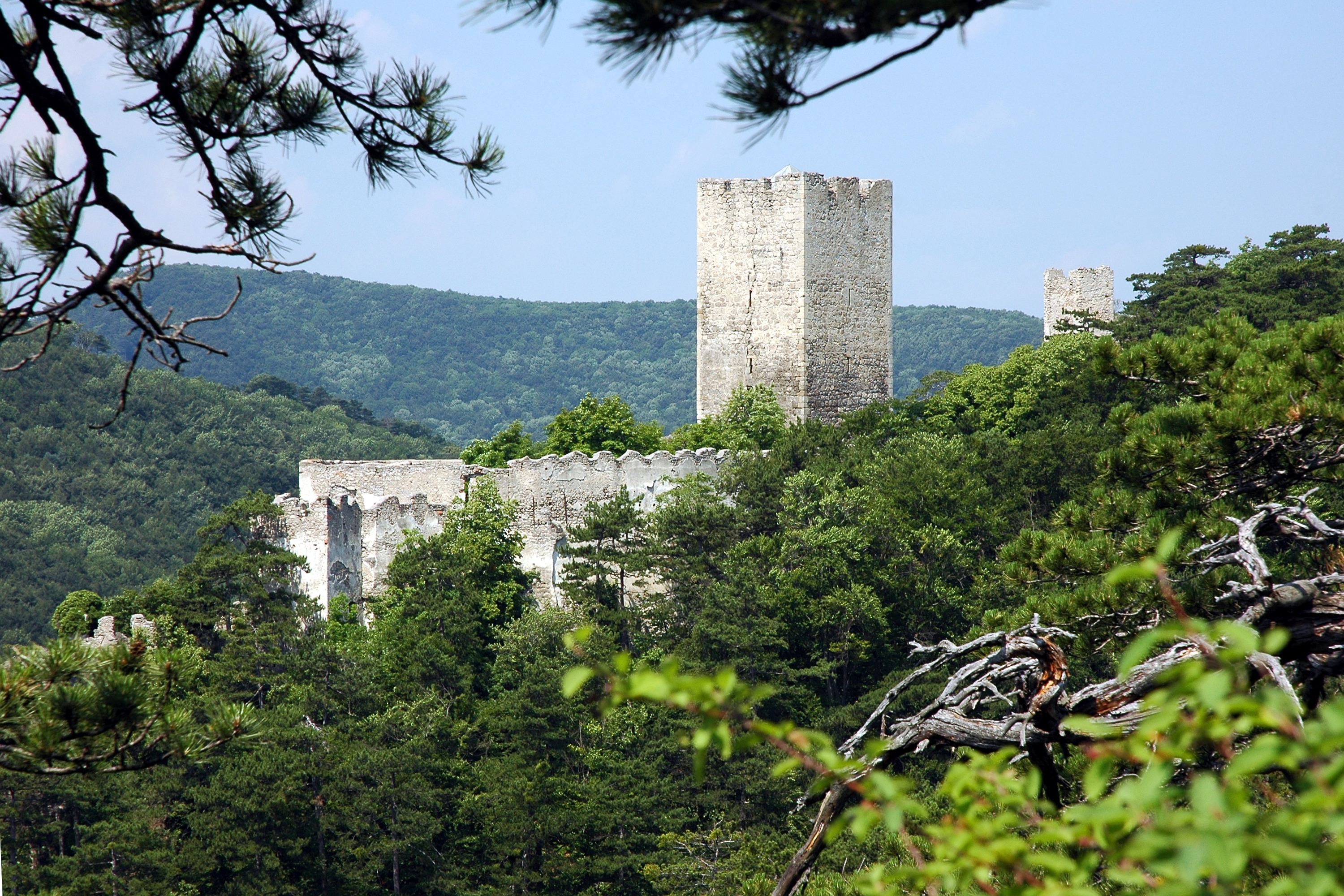 East side of Rauhenstein Castle, Baden near Vienna